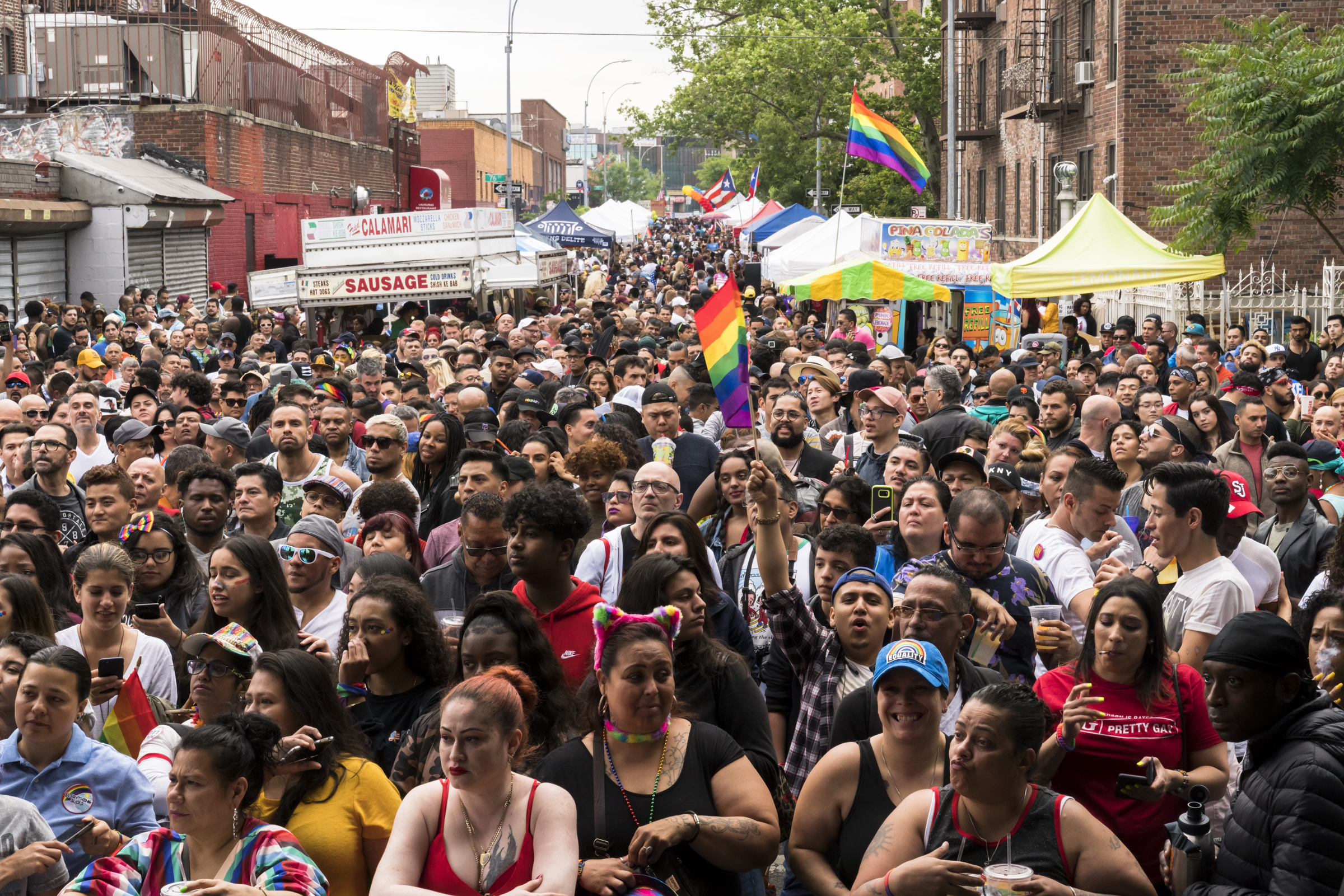 Photos taken for the La Guardia and Wagner Archives at the Queens Pride Paradein Queens on Sunday, June 3, 2018.